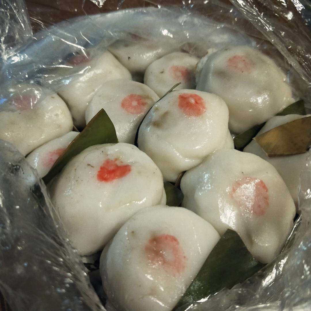 Fuzhounese snack for festivals, named